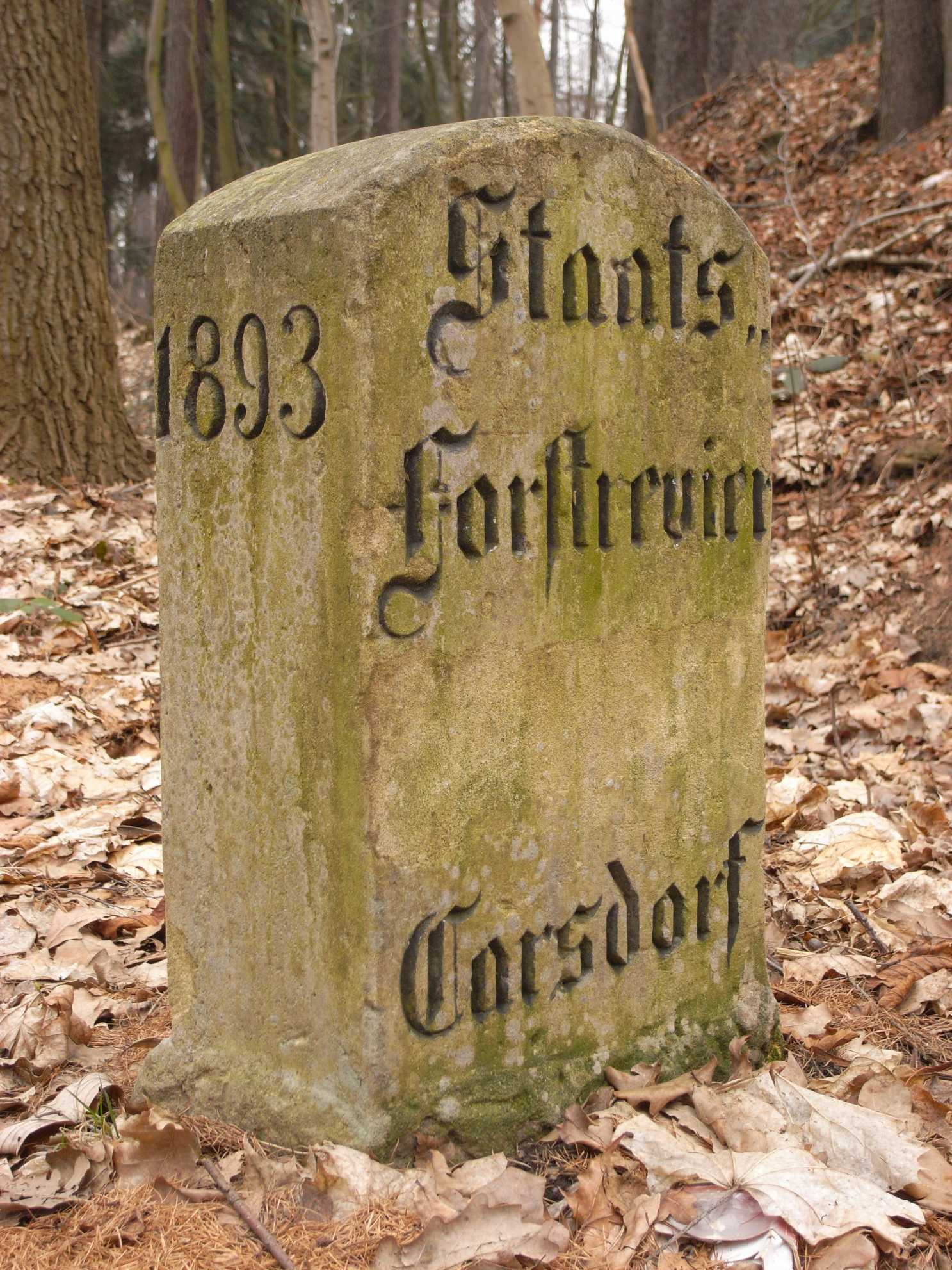 Heath of Dippoldiswalde (Dippoldiswalder Heide), boundary stone of the old forestry district Carsdorf and former municipality Carsdorf (today subdivision of Rabenau) (Saxony, Germany)